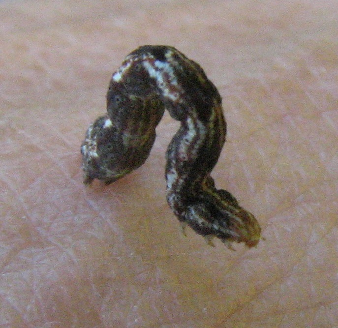 Geometrid caterpillar, Cyclophora (possibly C. pendulinaria). Size: about 1cm. Pennypack Restoration Trust, Montgomery County, Pennsylvania, USA.